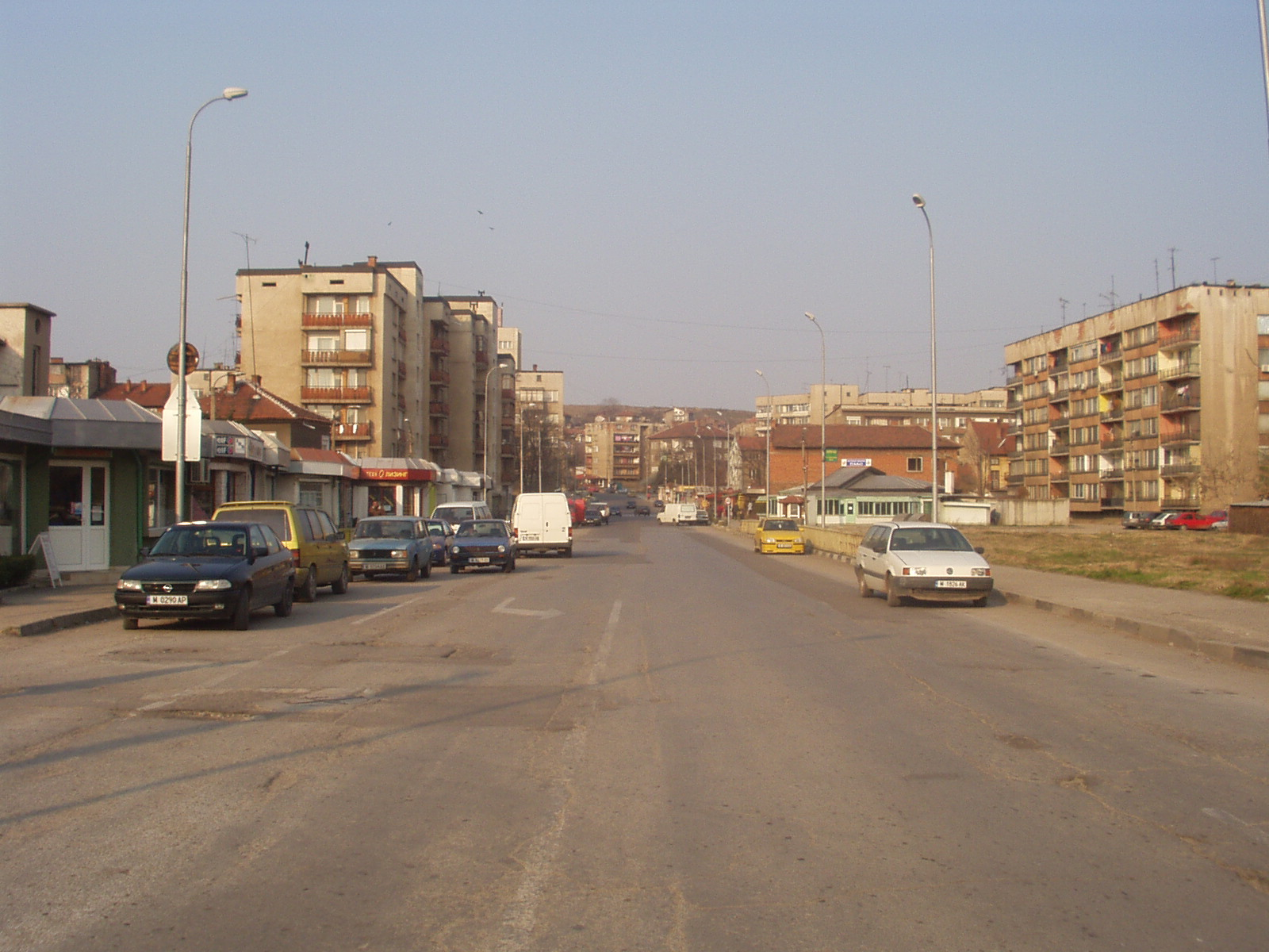 A major road in Lom, close to the bus and train stations